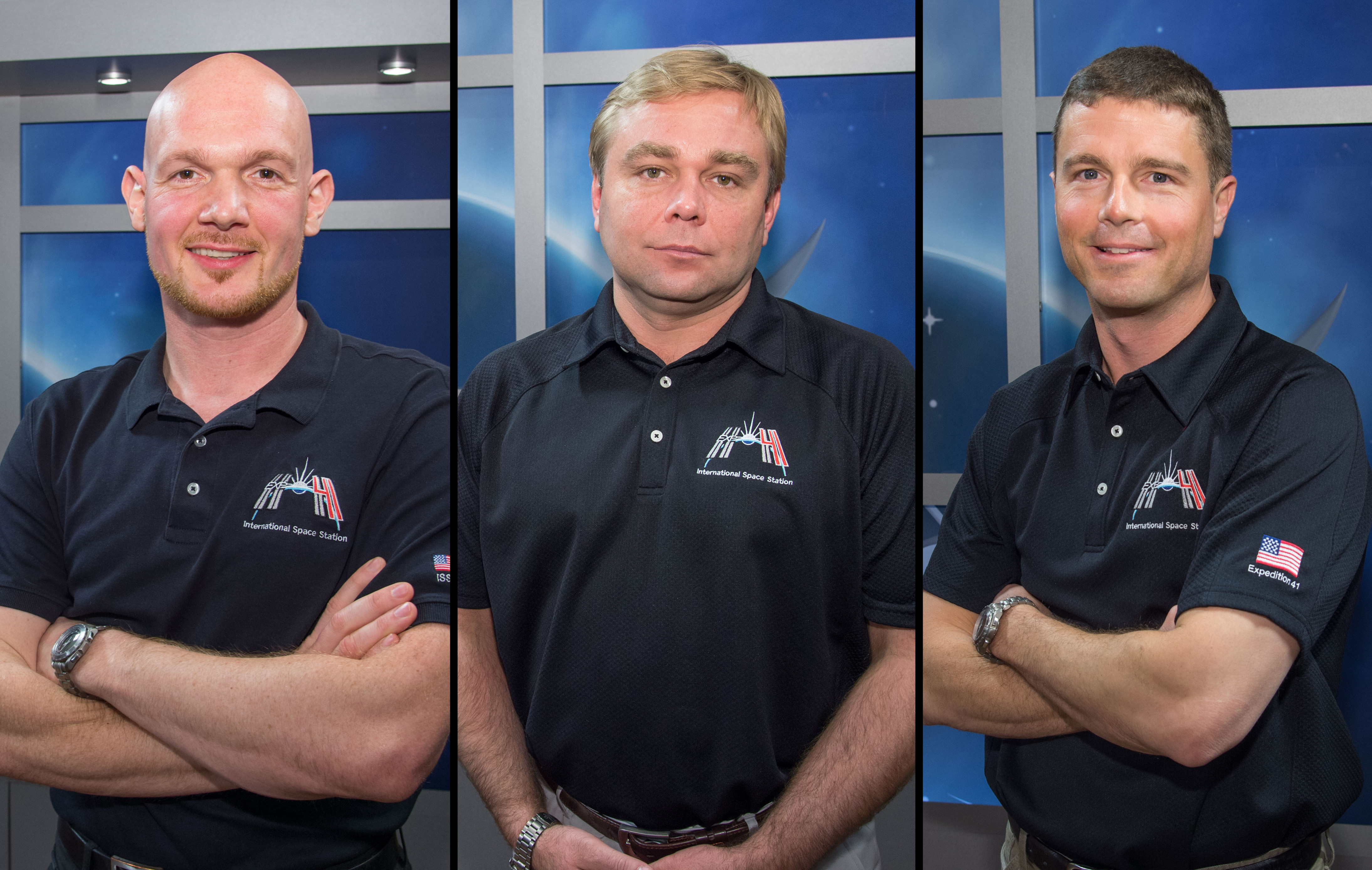 Alexander Gerst, Expedition 40/41 flight engineer representing the European Space Agency, cosmonaut Maxim Suraev, Expedition 40 flight engineer and Expedition 41 commander and astronaut Reid Wiseman of NASA, Expedition 40/41 flight engineer pose for photos following a March 18 press conference at NASA's Johnson Space Center.